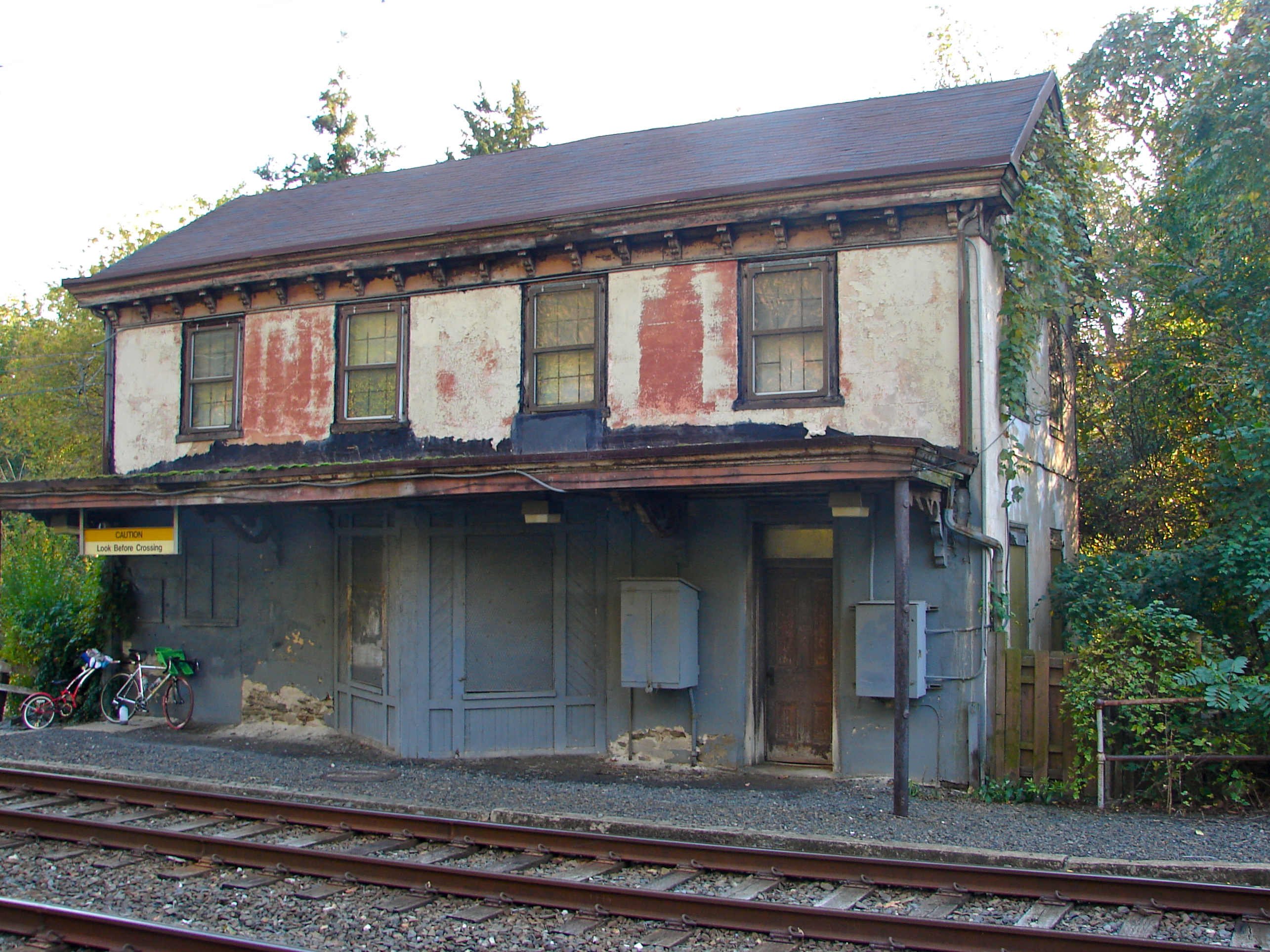 The Shawmont Station, formerly a stop on the Manayunk SEPTA line until 1996. The station is part of the Upper Roxborough Historic District, on the NRHP since May 2, 2001. The district is roughly bounded by Shawmont Avenue, Hagy's Mill Road, and the Schuylkill River in the Roxborough neighborhood of NW Philadelphia. The Historic District also extends a few yards into Montgomery County to the next station on the line. The Shawmont Station is definitely part of the Historic District, but is just south of Shawmont Avenue, just off Nixon Street at the Schuylkill River, with the Manayunk Trail coming within a few yards. The NRHP Nomination Inventory reads: "26. Nixon Street Shawmont Railroad Station c. 1855 This 2-story train station, formerly of the Reading Railroad, has a rubble foundation, stuccoed walls (formerly scored and painted reddish brown, presumably to imitate brownstone masonry), a wood awning extending the length of the building along the tracks (for waiting passengers), 6/6 double-hung wood sash windows, a bracketed cornice , and a gabled, asphalt shingle roof. There is a two-story residential addition on the rear of the building which forms an overall L-shape plan." Recently, there seems to be new evidence that the building was built in 1835, which I have been unable to confirm, which would make the building the oldest extant passenger railway station in the nation.